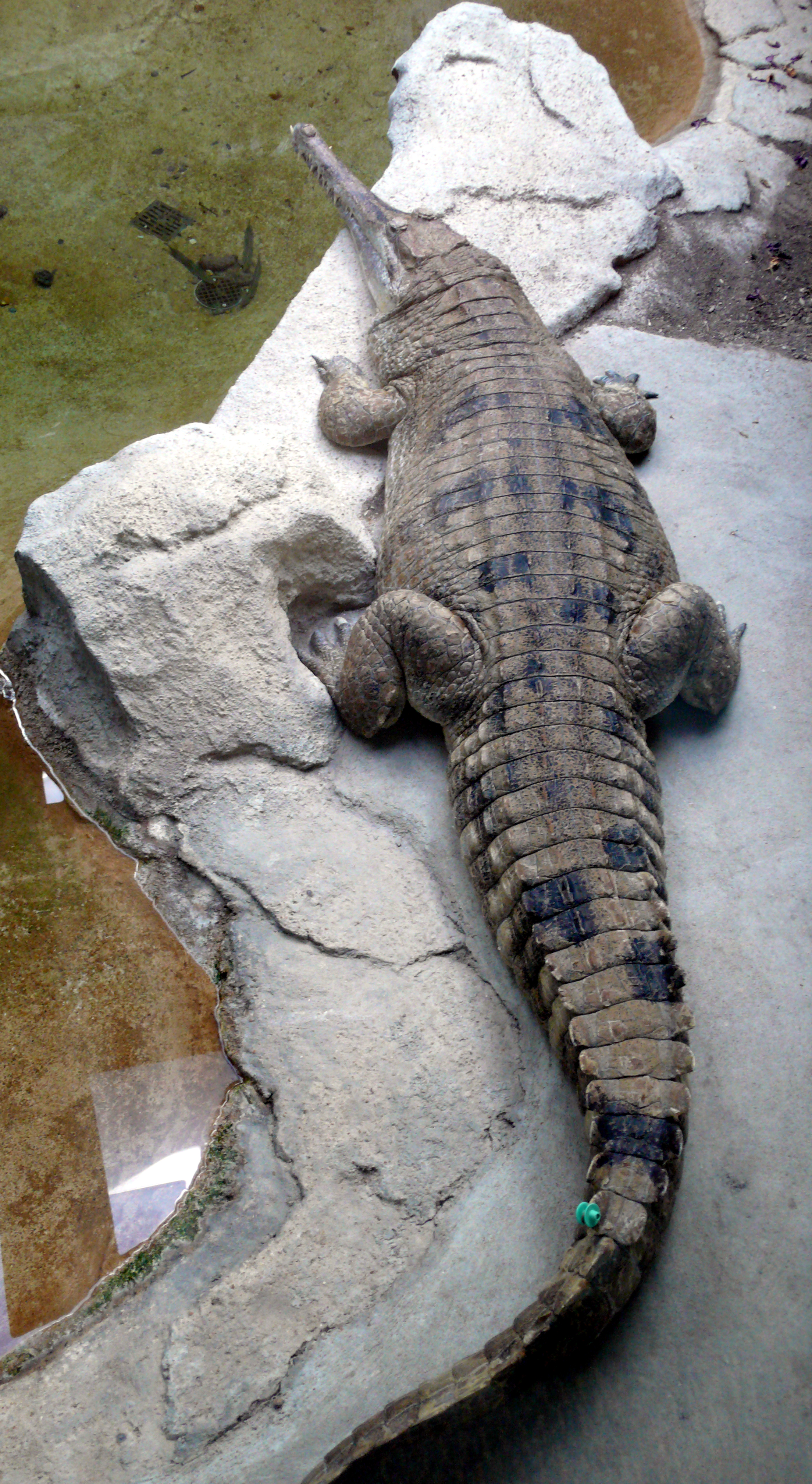 False gharial Tomistoma schlegelii